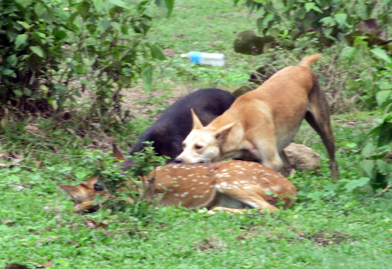 near the border of the forest, two stray dogs chased and killed a spotted deer fawn, it was on the roadside. I could click it while driving. I didn't stop the vehicle, as it is not permitted in the forest.